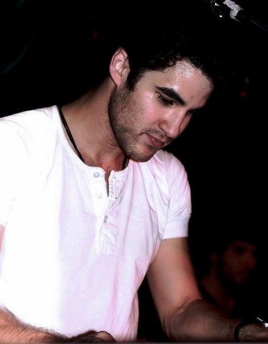 Darren Criss performing in November 2010